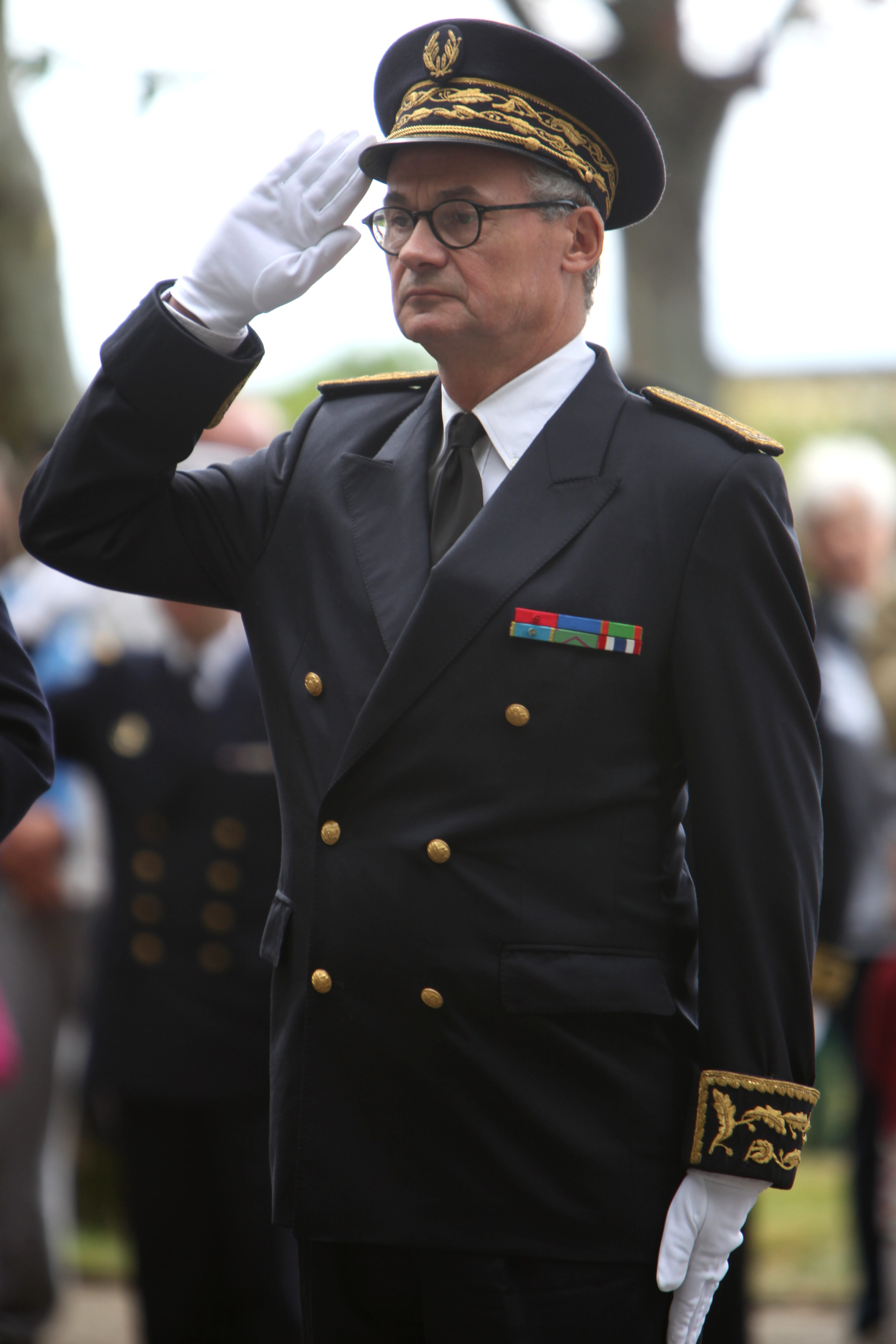 Jean-Luc Videlaine, Prefect for Finistère, at the ceremonies of the 14th of July 2015 in Brest.